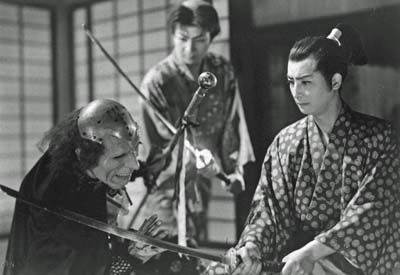 From right to left:Chiyonosuke Azuma, Sentarō Fushimi and Yoshio Yoshida in 1955 Japanese movie Omoshiro dōji dai-ippen: Giyaman no himitsu